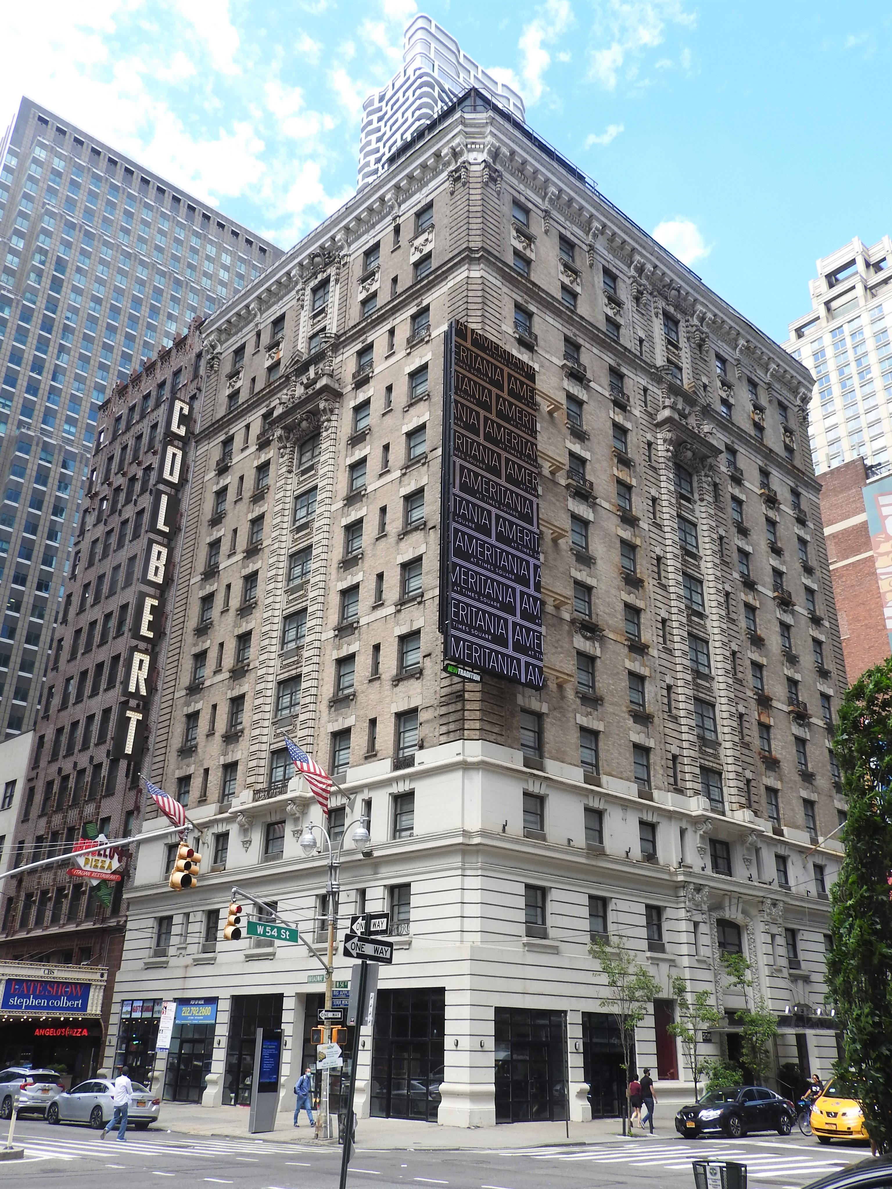 Looking west across Broadway and 54th Street at a hotel on a partly cloudy morning